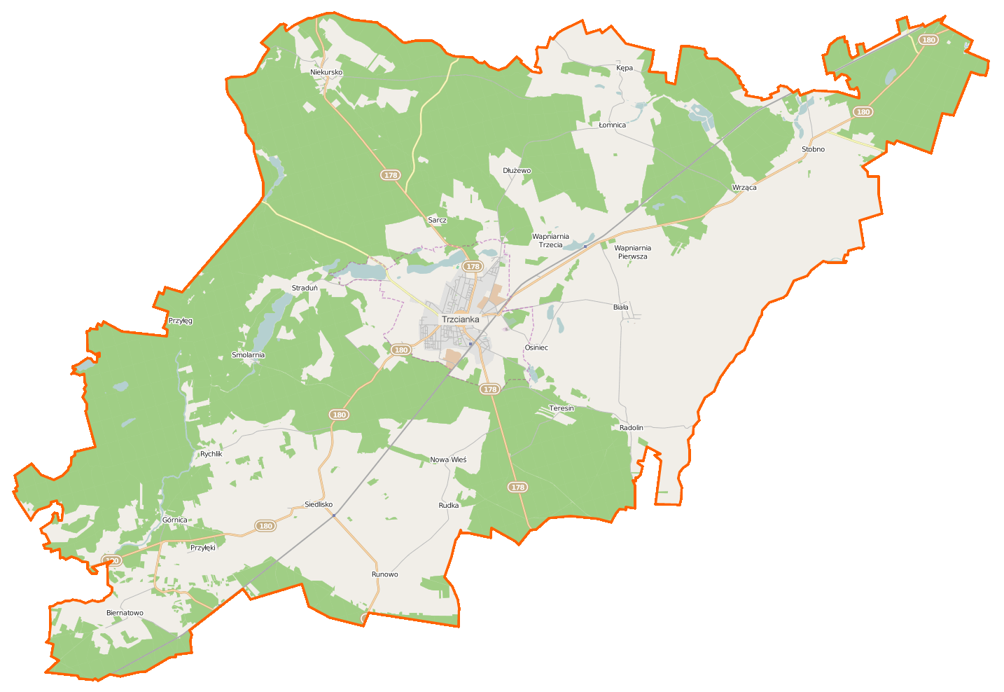 Map of Gmina Trzcianka, Poland This map of Trzcianka (gmina) was created from OpenStreetMap project data, collected by the community. This map may be incomplete, and may contain errors. Don't rely solely on it for navigation. Border coordinates53.135616.2354←↕→16.727752.9319